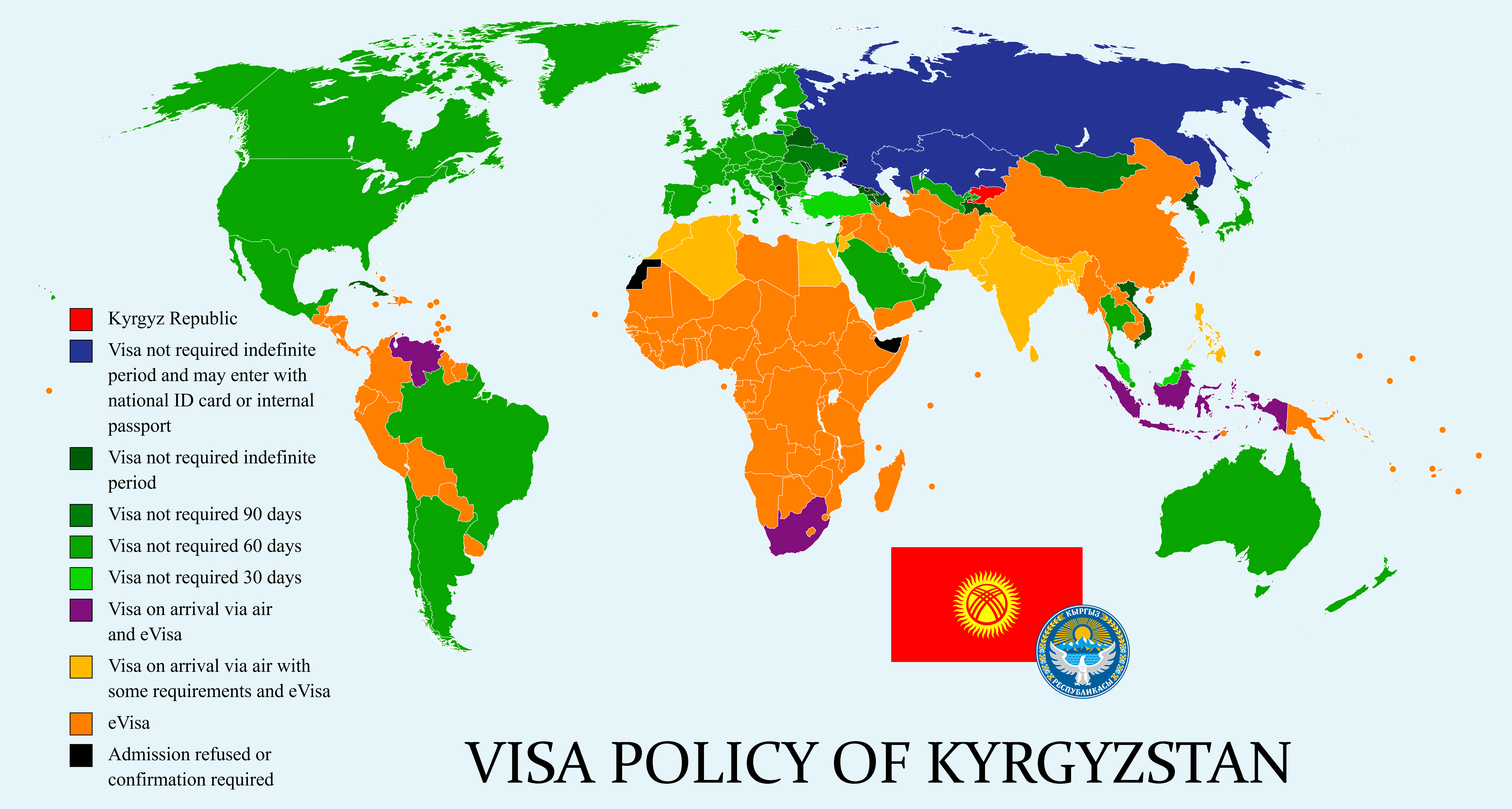 Visa policy of Kyrgyzstan Kyrgyzstan Visa-free - unlimited stay Visa-free - 90 days Visa-free - 60 days Visa-free - 30 days Visa on arrival / eVisa eVisa